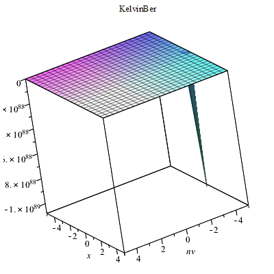 Kelvin Ber(v,z) function